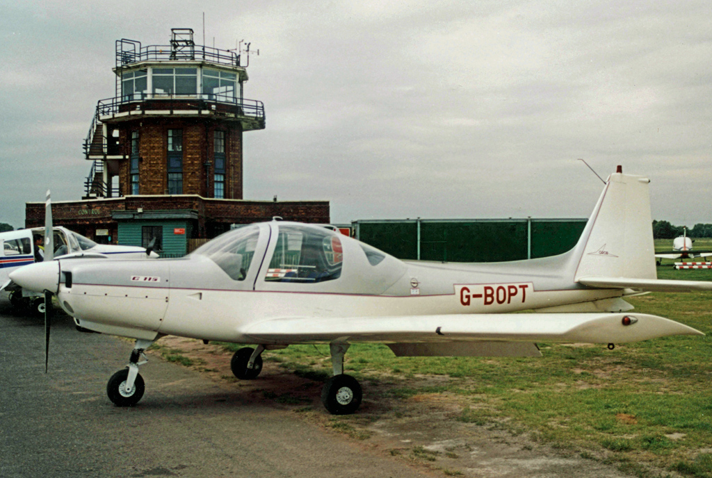 Grob G 115A G-BOPT of the Lancashire Aero Club at Manchester Barton Airport in 2004